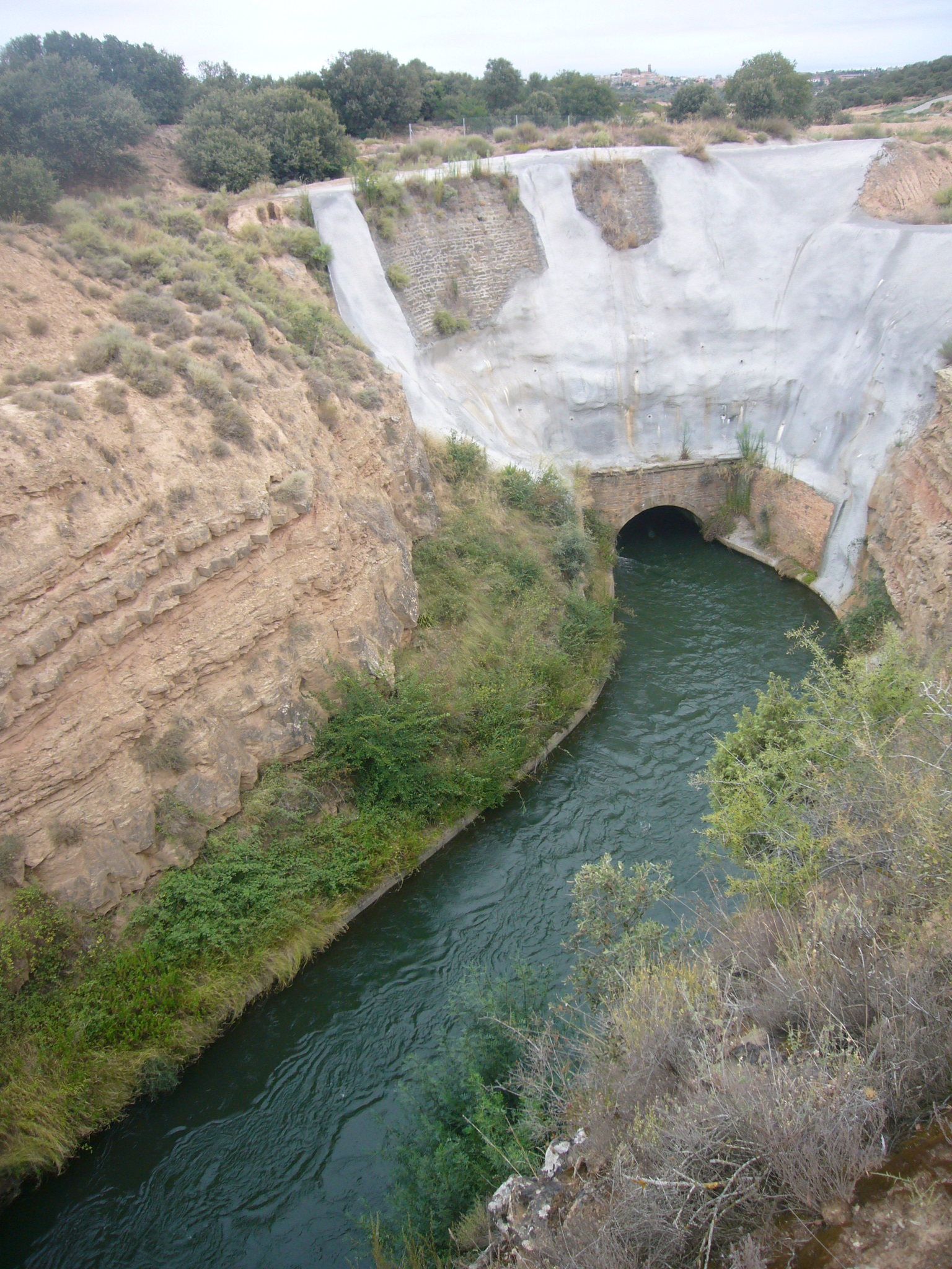 South of the "Mina de Montclar" tunnel, where the water gets out of the 5 km tunnel